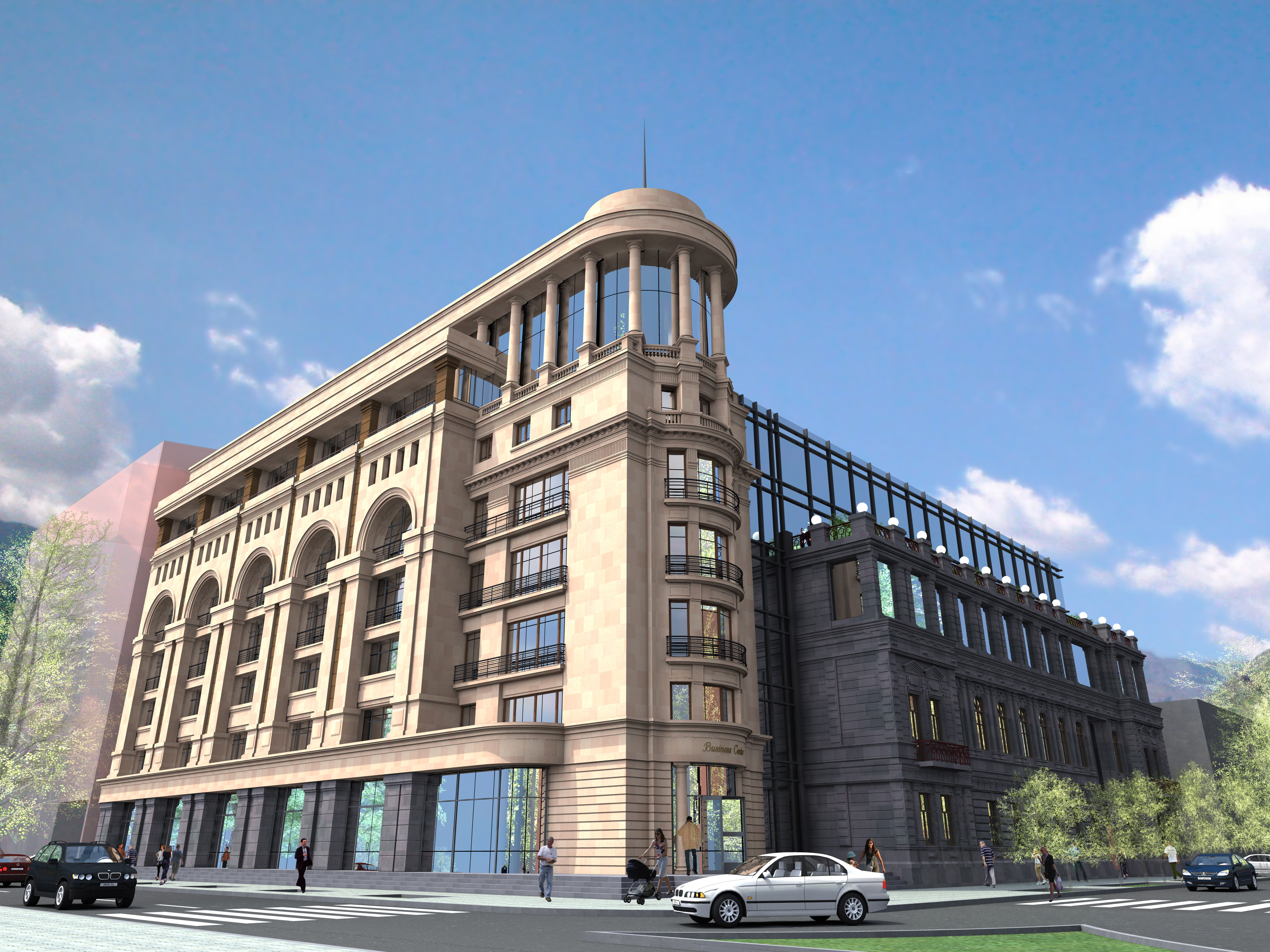 Բազմաֆունկցիոնալ շենք Մելիք-Ադամյան - Գլխավոր պողոտա